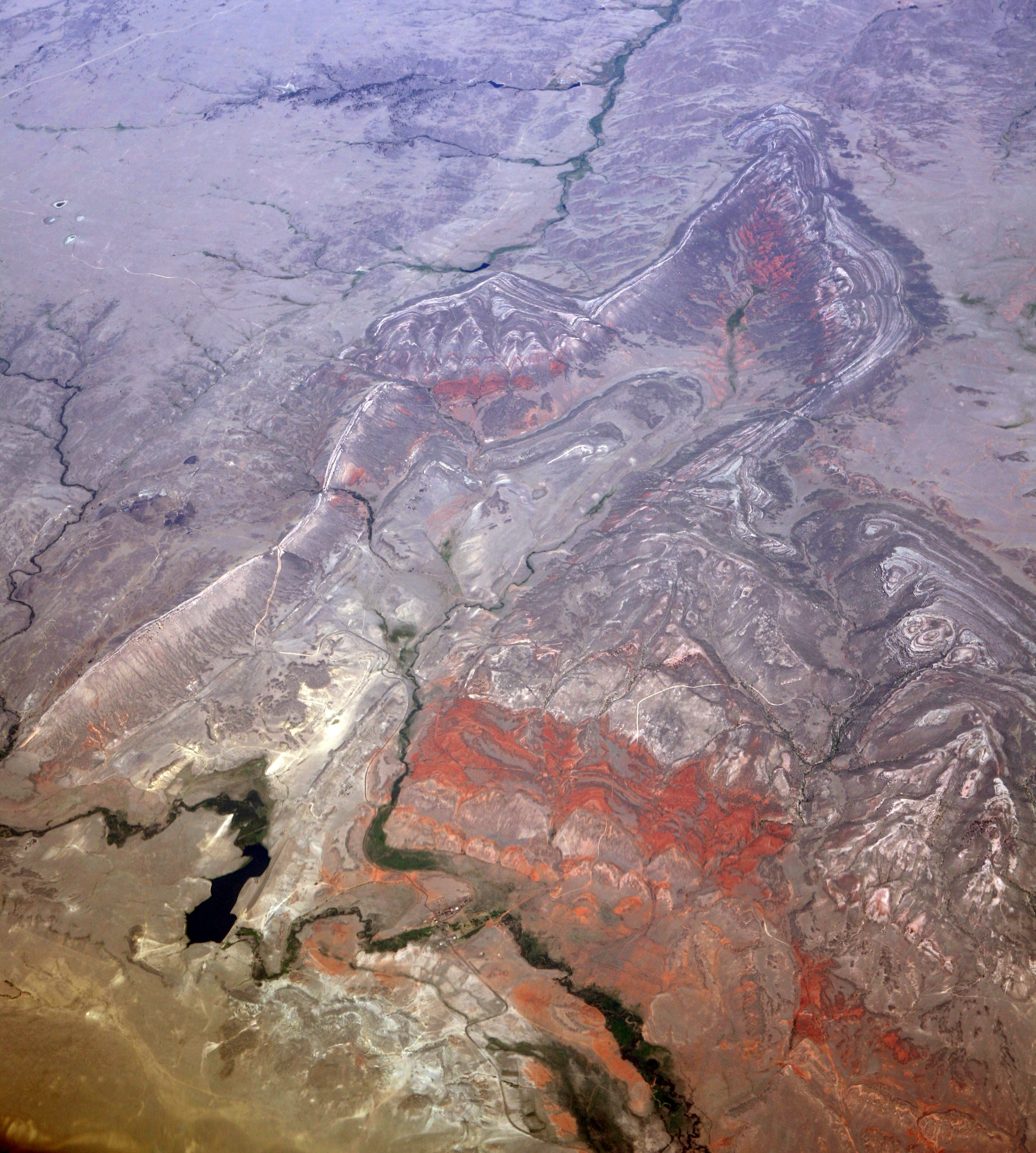 Spring Creek, joins Middle Chugwater Creek, which continues east below red slopes that stand out in the otherwise brown landscapes of the Laramie Range in Wyoming. At the top, South Sybile Creek. The ridge on the left is Limestone Rim.